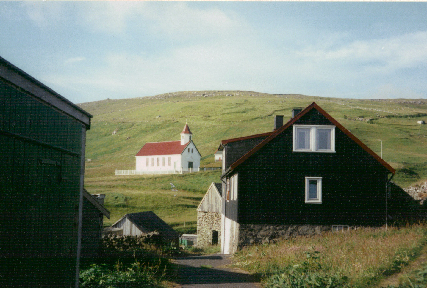 Church (1937) in the village of Skúvoy. Iglesia (de 1937) en el pueblo de Skúvoy.